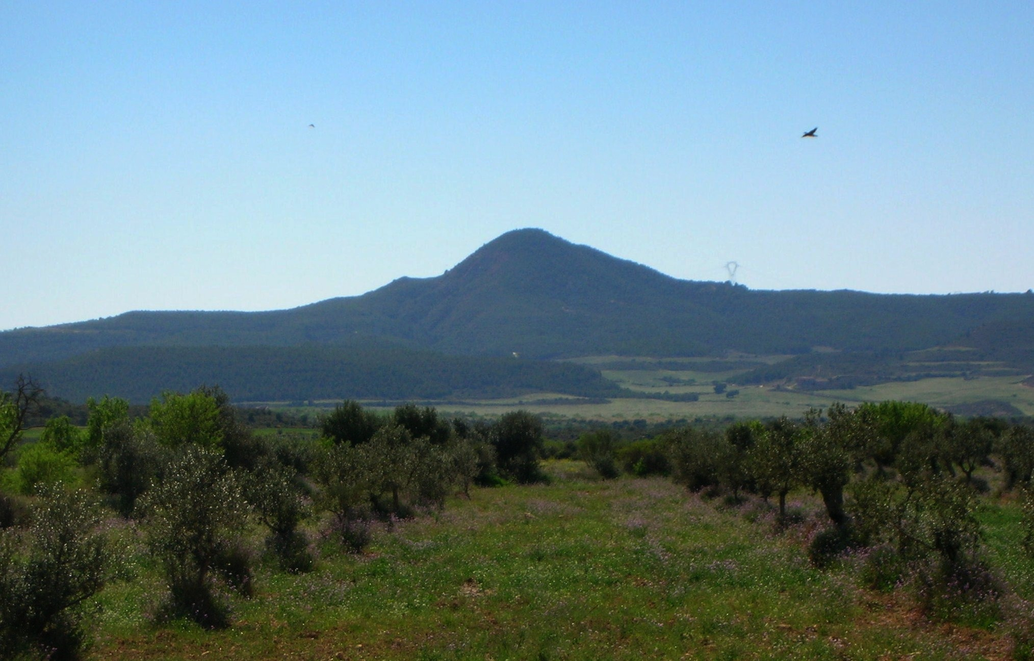 Montmeneu, a mountain south of Serós and west of Maials